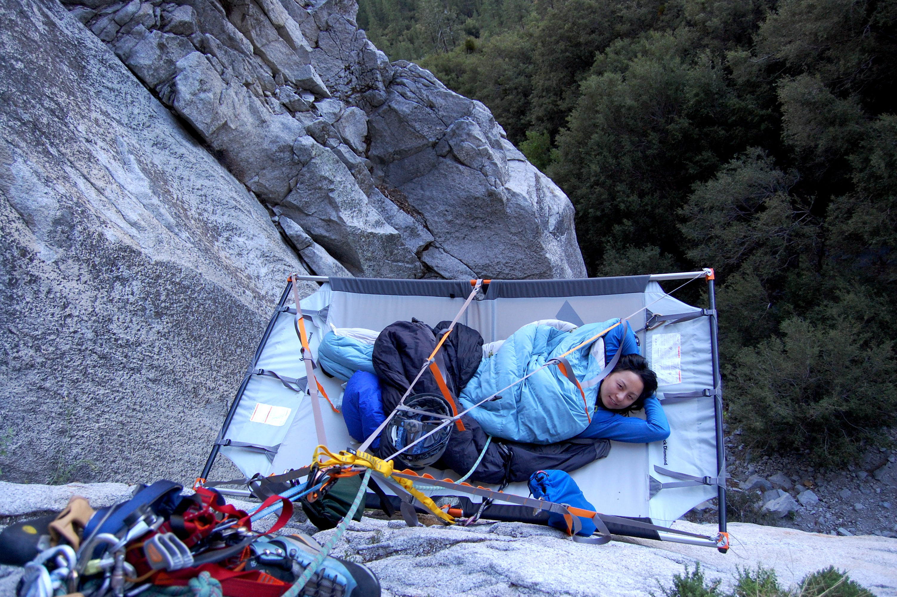 A woman lying on a portaledge.